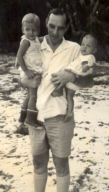 This is a scan of a picture my mother took in 1961 in Biak. It is my grandfather, myself and my brother. My mother, when alive, gave me the picture (as part of a larger collection) and the negatives. My mother died in 2002.